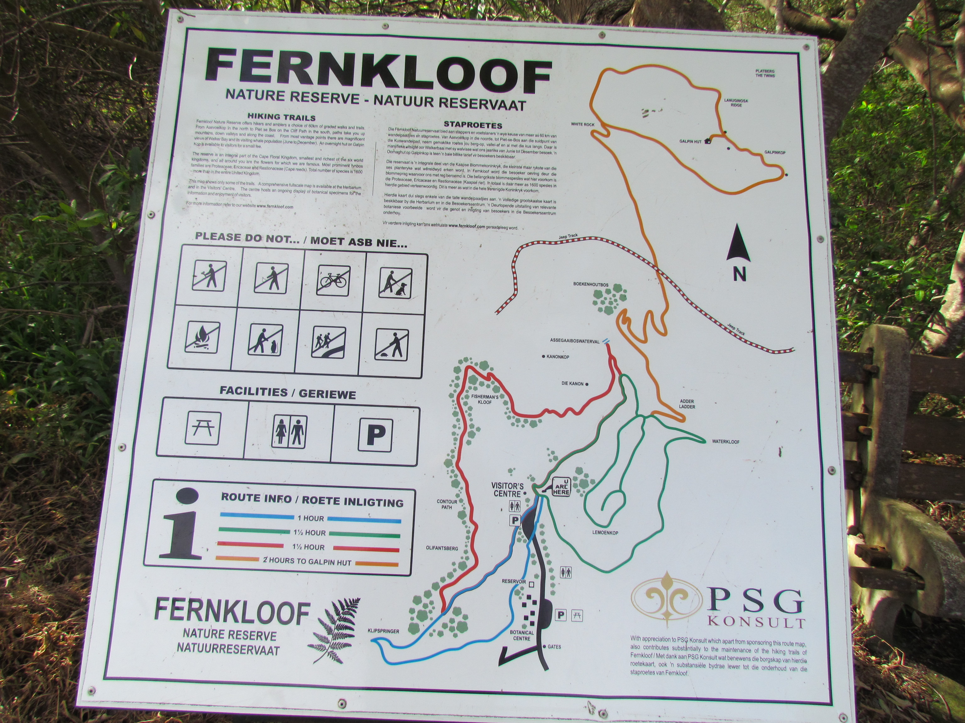 Information sign Fernkloof Nature Reserve